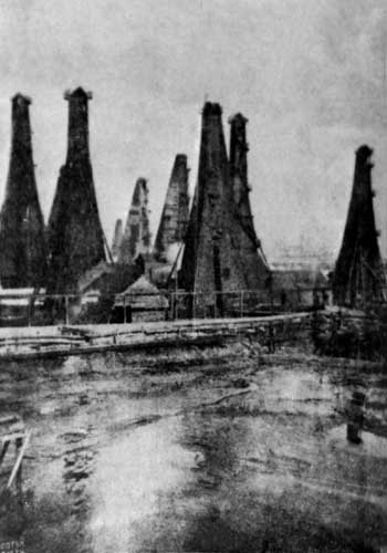 Cadre from film "В царстве нефти и миллионов" about Baku millioner of early 20th century